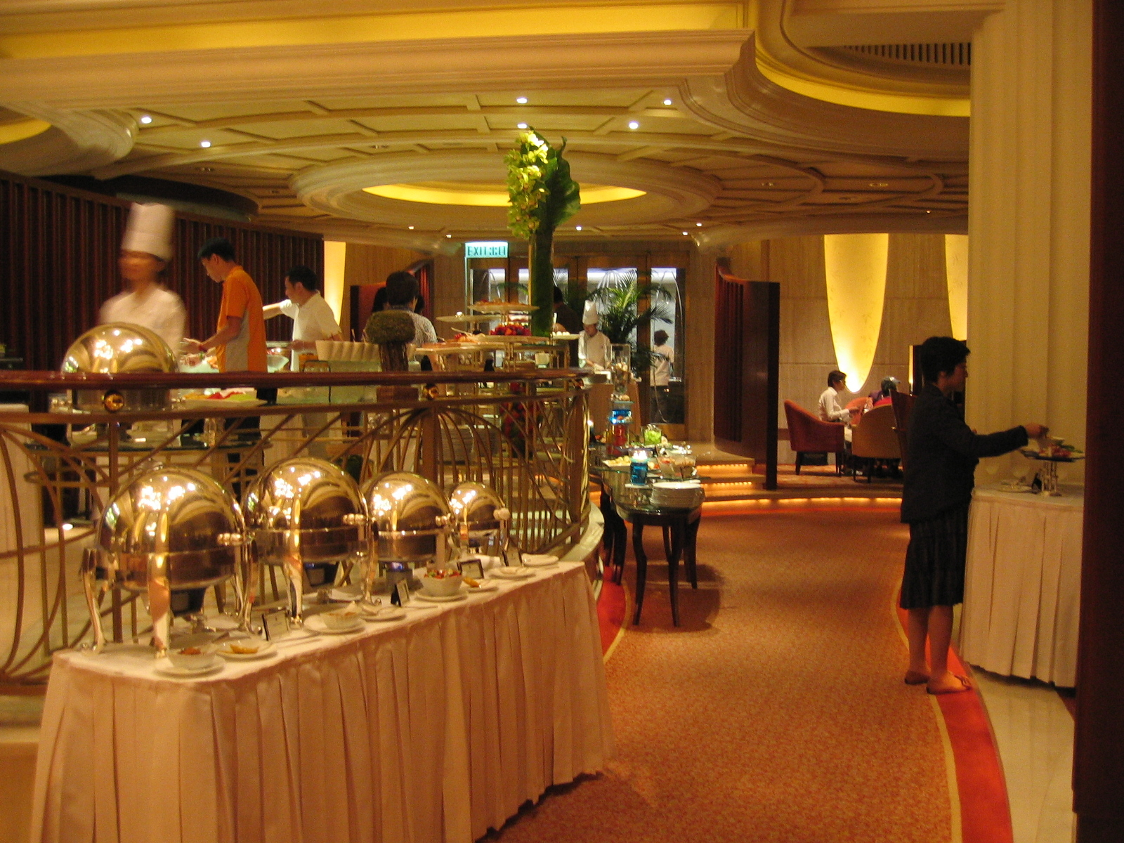 HK Ritz Hotel Central The Cafe